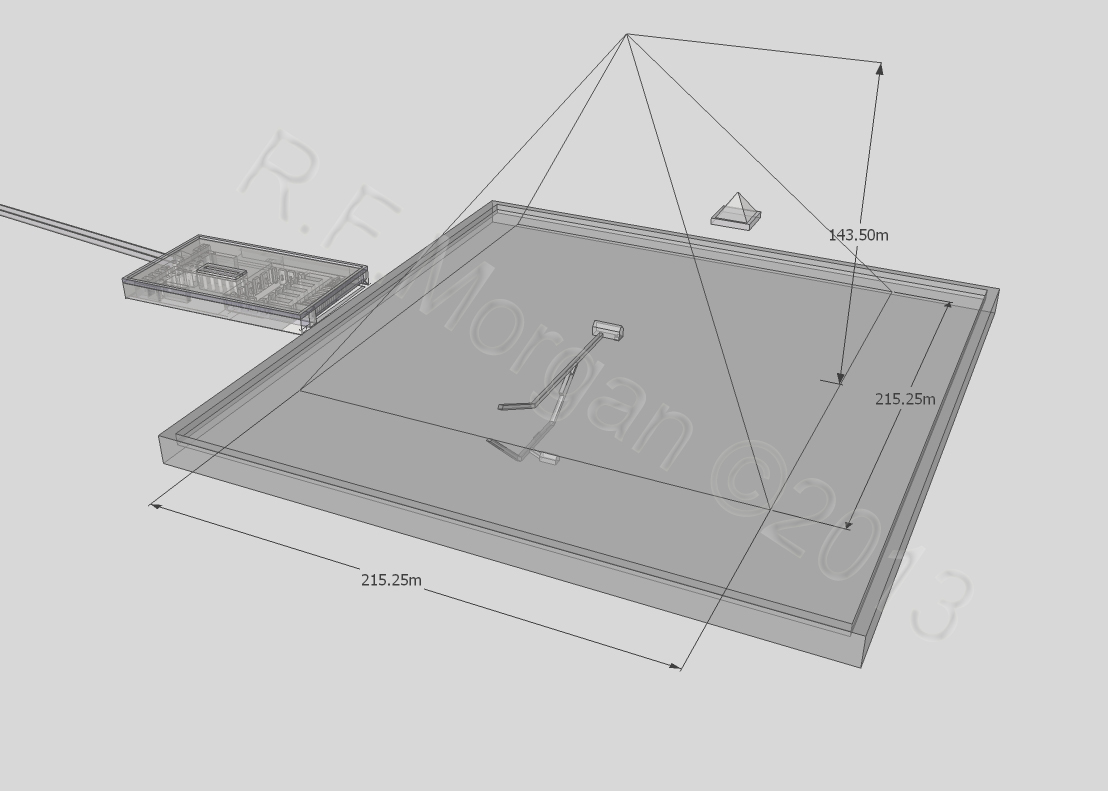 The pyramid of Khafre